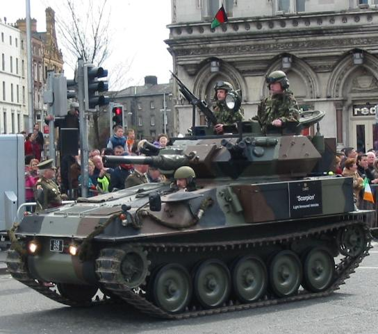 Irish Army Scorpion Light Tank, taken at 2006 Easter Parade in Dublin.